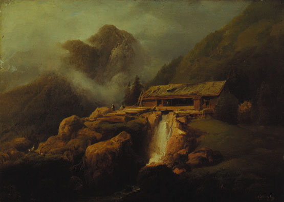 Josef Matěj Navrátil: Mountainous Landscape near Vyšší Brod. Circa 1830. Now in collections of the Gallery of Fine Arts in Ostrava